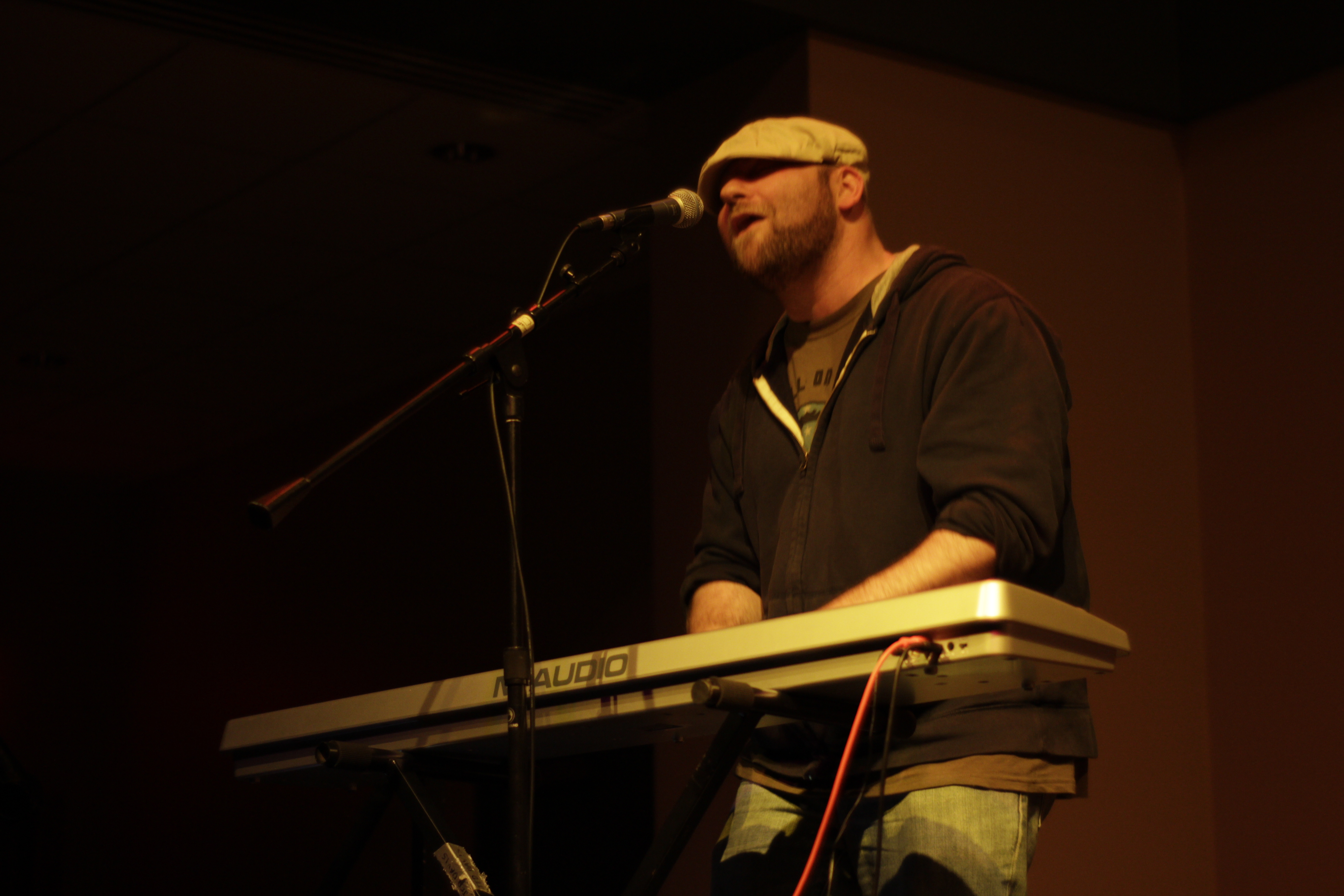 Jed Davis performing with Sevendys at The Linda in Albany, NY on June 14, 2011.